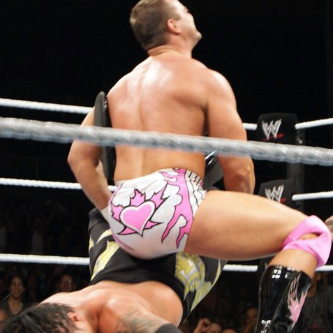 David Hart Smith applying the Sharpshooter on Jimmy Uso.